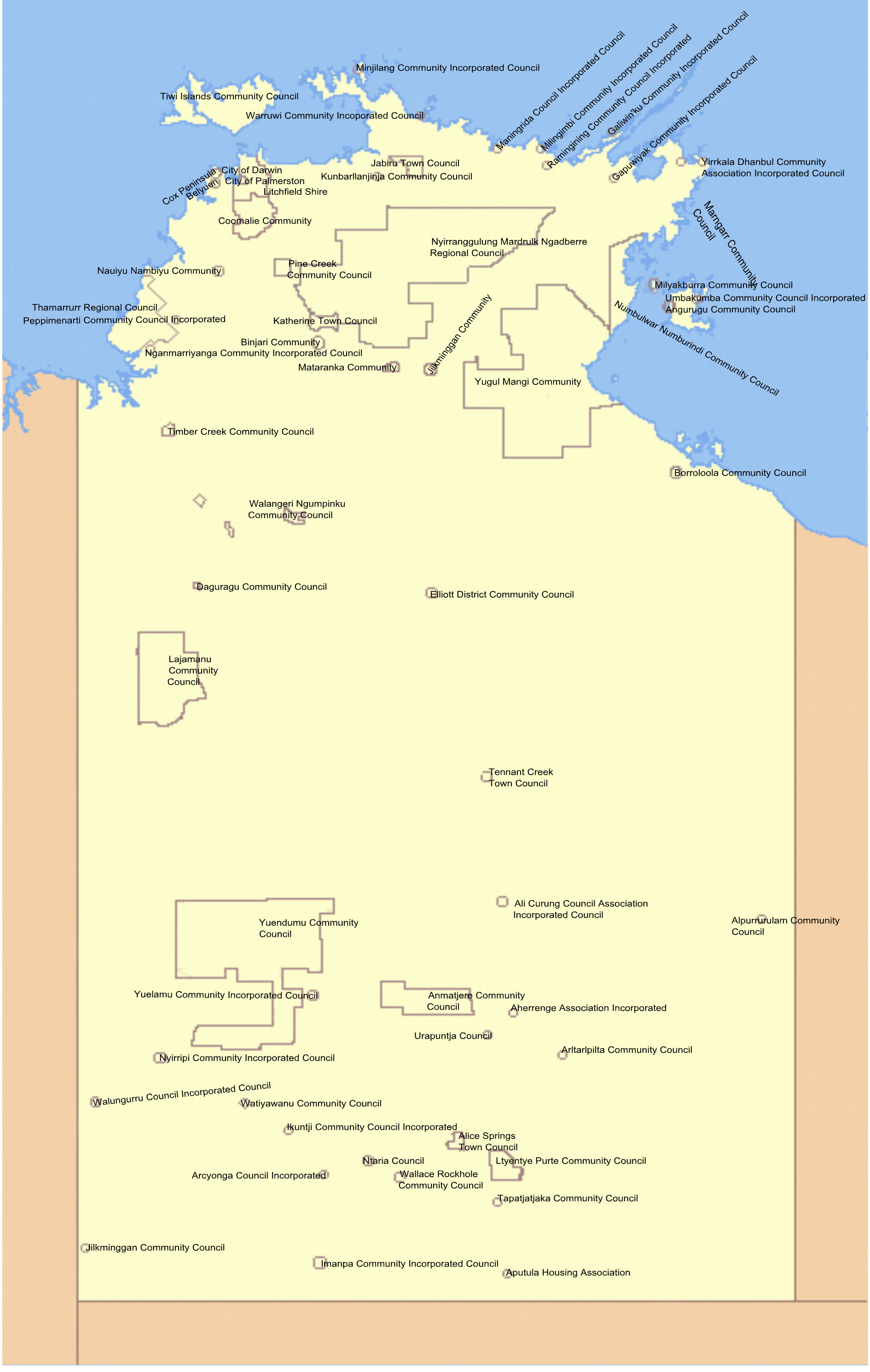 Entirely my own work for the Local Government Areas in the Northern Territory